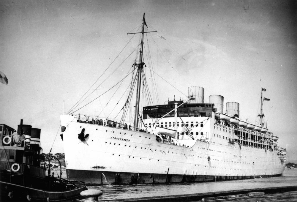 Strathnaver (ship).